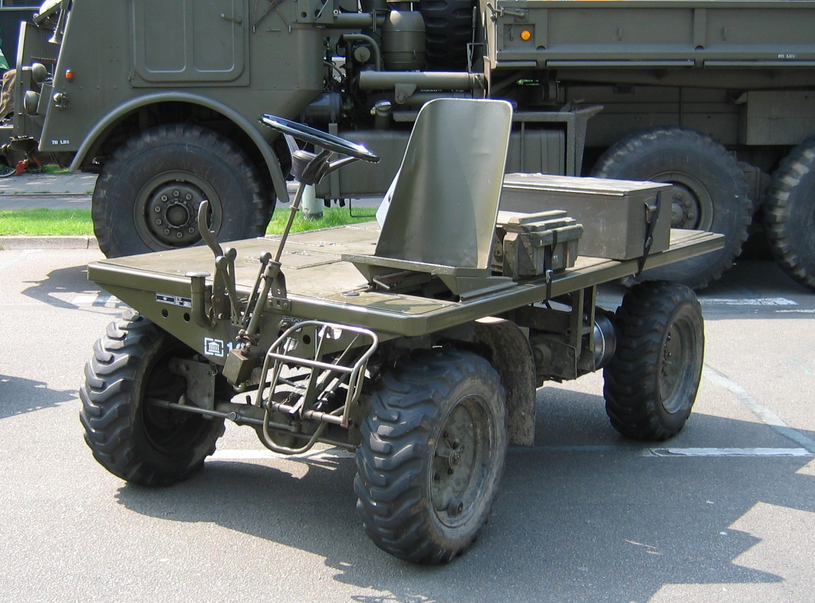 A DAF automobile at the DAF exposition during the Eindhoven Pole Position weekend.